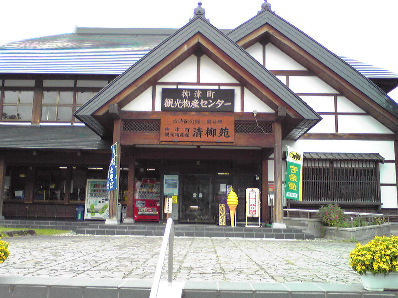 Local products store "Seiryuen" at Michinoeki Aizu Yanaizu in Yanaizu Town, Fukushima Prefecture, Japan